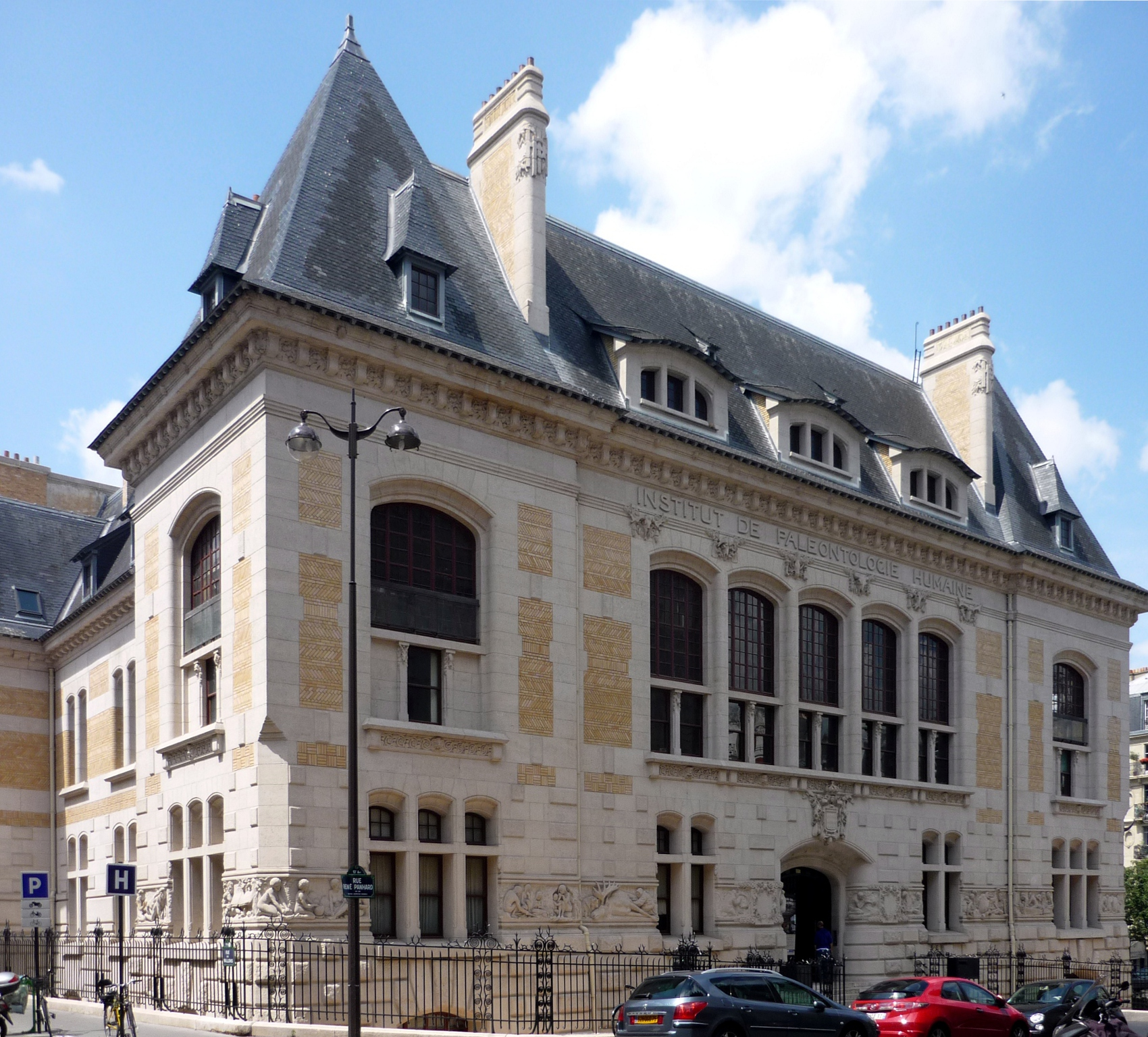 Institut de paléontologie humaine, Paris, France